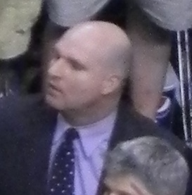 Playoffs on May 20th: Miami Heat coaches, L-R: Asst. Chad Kammerer, asst. Jay Sabol, asst. Ron Rothstein, head coach Erik Spoelstra, man wearing a media badge, Bob McAdoo (standing with clipboard), David Fizdale